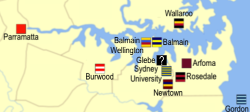 Location of teams involved in the 1887 Sydney Rugby Premiership